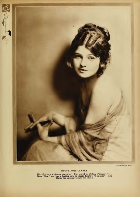 Betty Ross Clarke Motion Picture Classic 1920